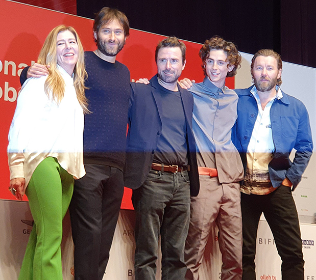 The King Dede Gardner - Jeremy Kleiner - David Michôd - Timothée Chalamet - Joel Edgerton (2019 BIFF)